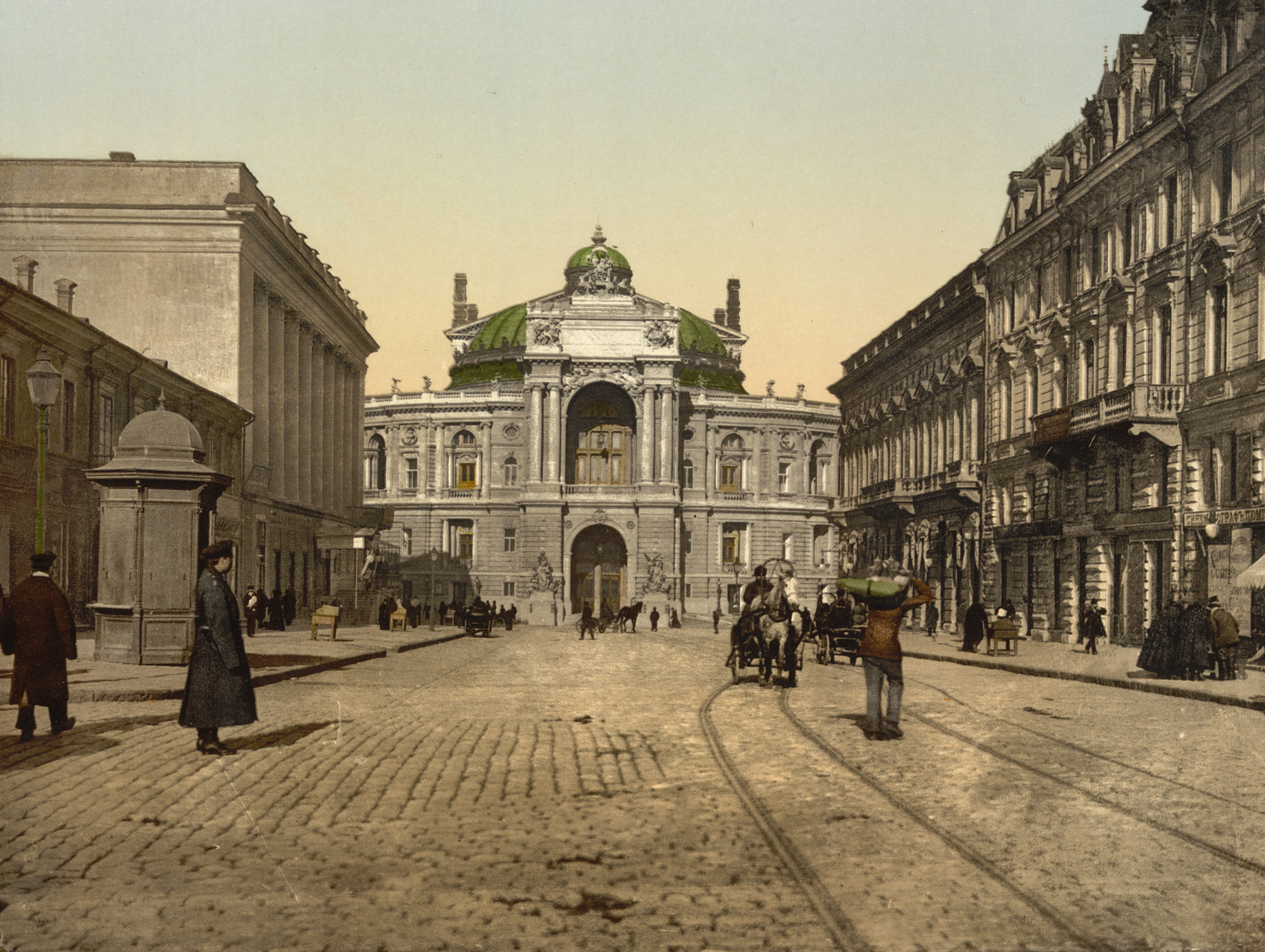 19th-century postcard of Richelieu Street in Odessa. Print no. "8889"